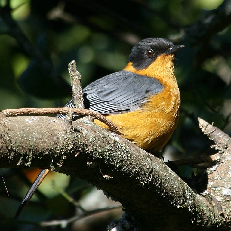 Chorister Robin-chat (Cossypha dichroa). A fairly common bird of forests and well-wooded gardens, but difficult to photograph as it sticks to the shade. A good mimic; it will often answer a human's whistle.